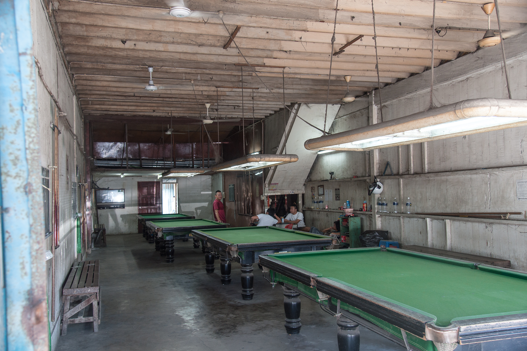 A Billardsalon in one of the old shophouses in Tamparuli, Sabah